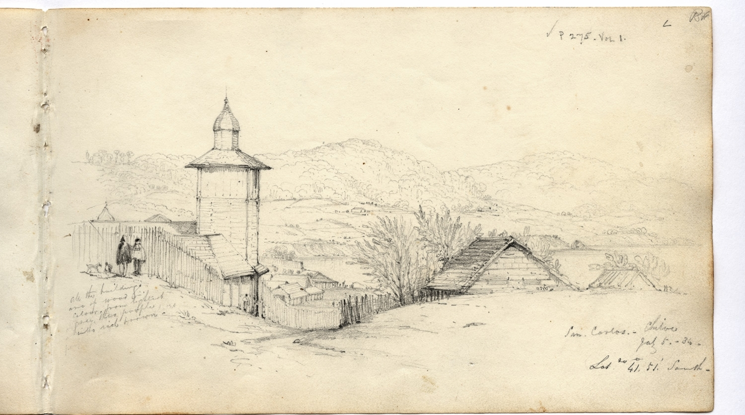 Drawings and watercolors by Conard Martens from the second voyage of HMS Beagle. Sketchbook I, with titles and numbers as in Cambridge Digital Library, which has more info possibly better zooming option; upper and lower margins cropped; not rotated.